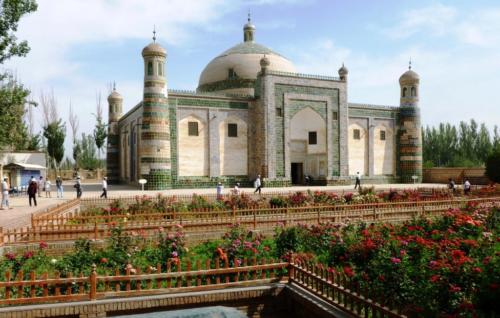 I took this photo on a trip to Kashgar in 2011.